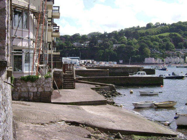 Forester's Terrace and Morgans Quay, Teignmouth Forester's Terrace, like several other narrow streets, disgorges on to the river beach. The walls and jetty beyond are all that remain of the famous shipbuilders Morgan Giles Ltd. Their name is remembered in the Morgans Quay flats on the site, whose balconies can be seen above the timber steps and boardwalk.